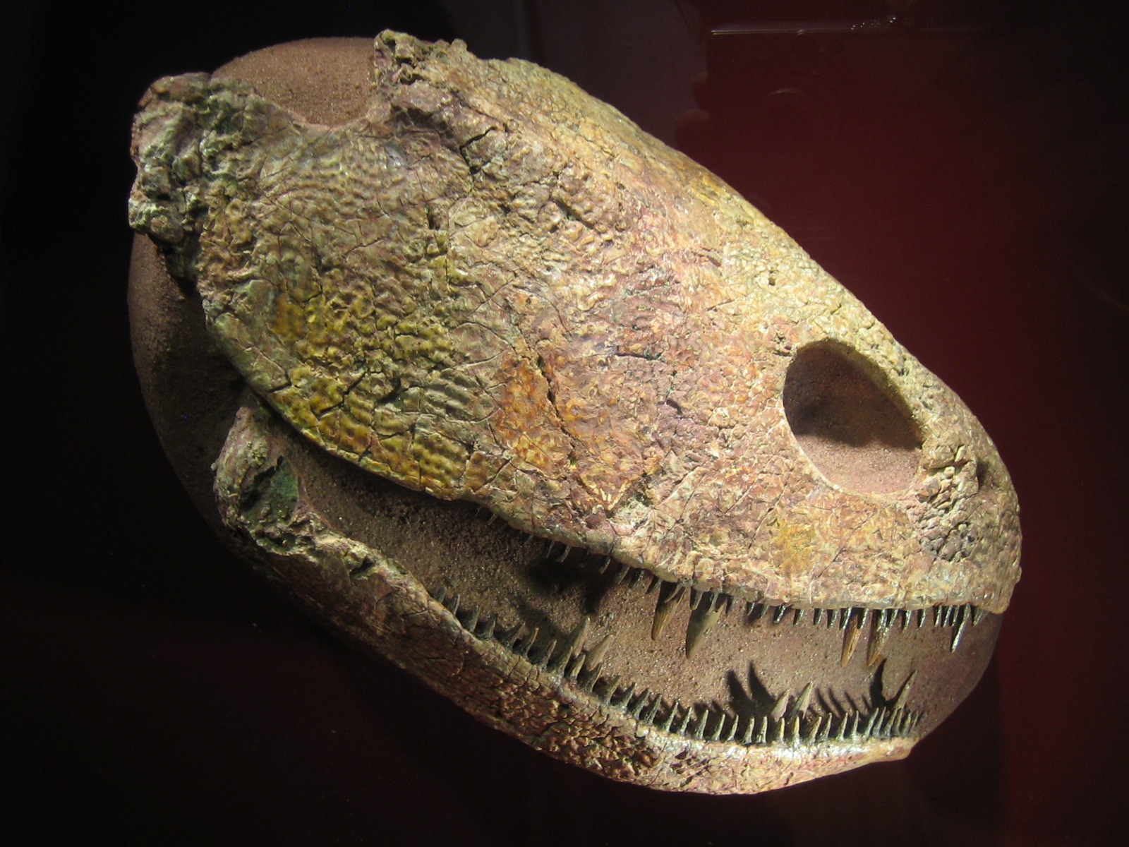 Platycephalichthys in Cosmocaixa, Barcelona